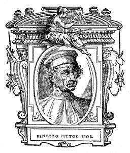 Illustratio from "Le Vite" by Giorgio Vasari, edition of 1568. For the artist portrayed see filename